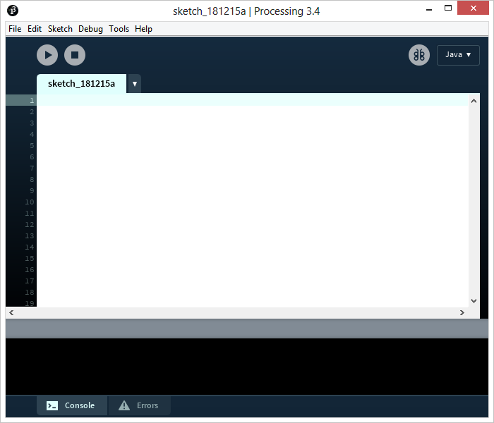 Screenshot of Processing's integrated development environment.